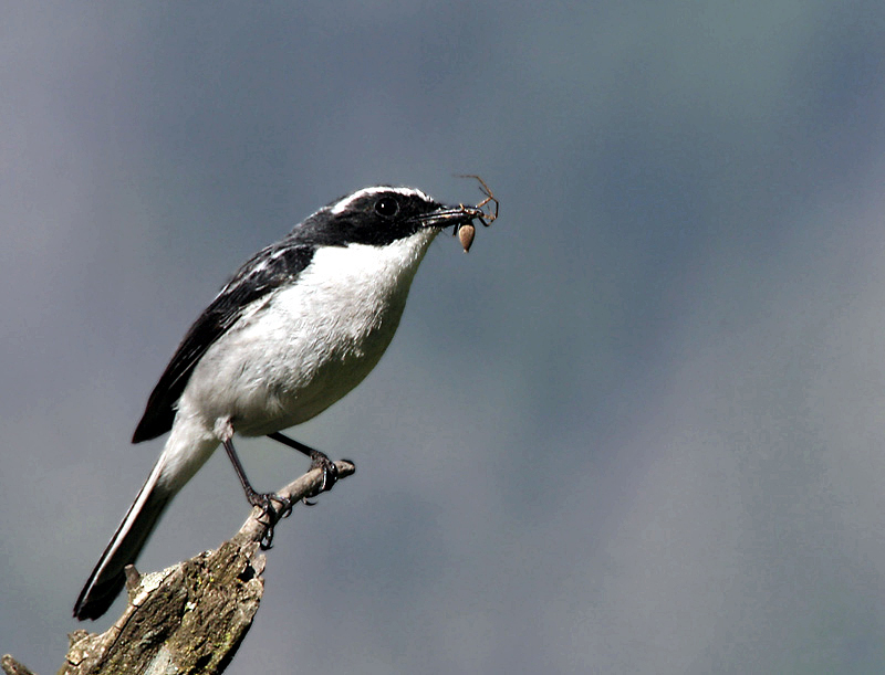 Grey Bushchat Saxicola ferreus in Kullu District of Himachal Pradesh, India.